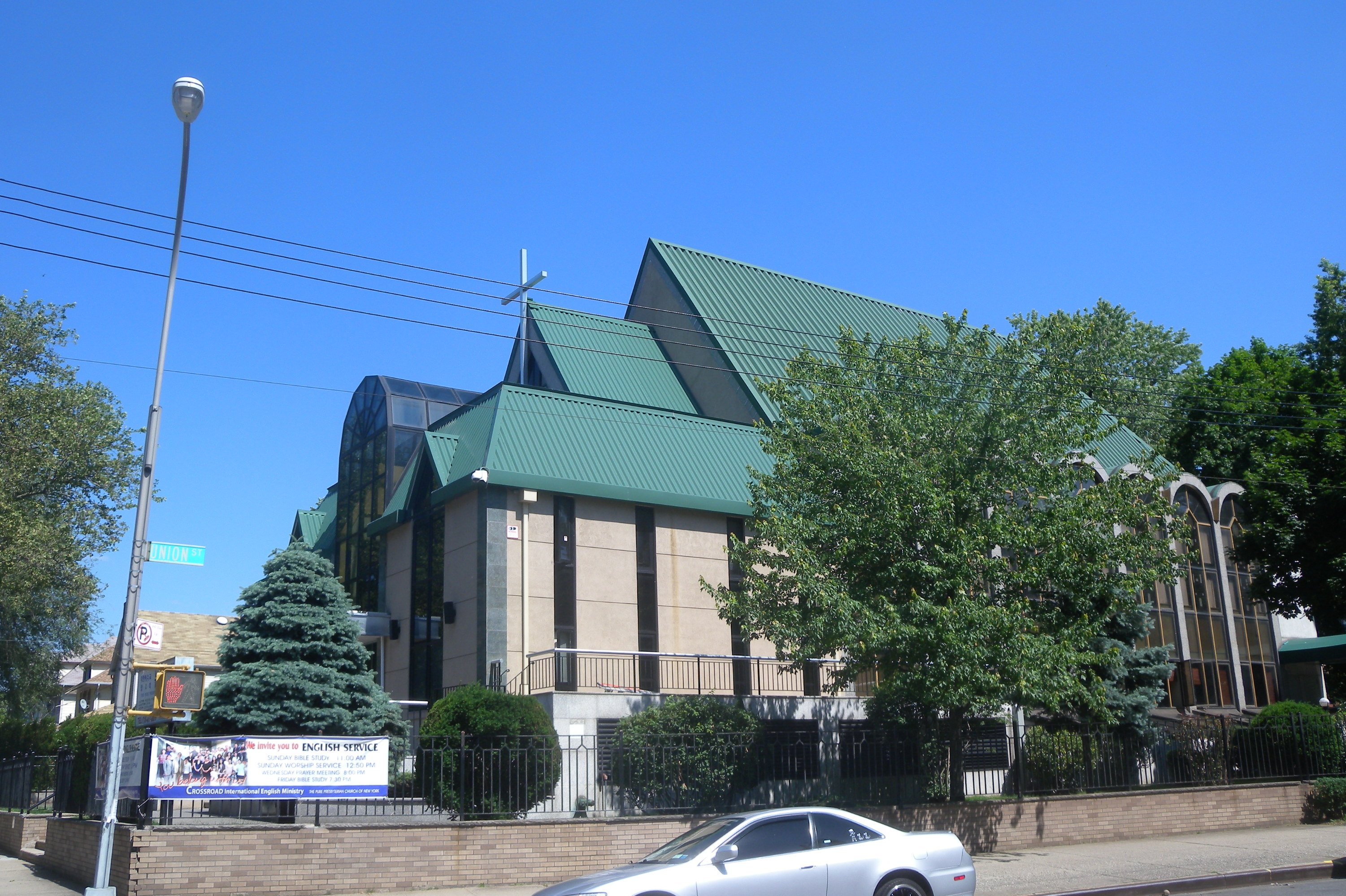 Looking east across Union Street at Pure Presbyterian on a sunny afternoon.